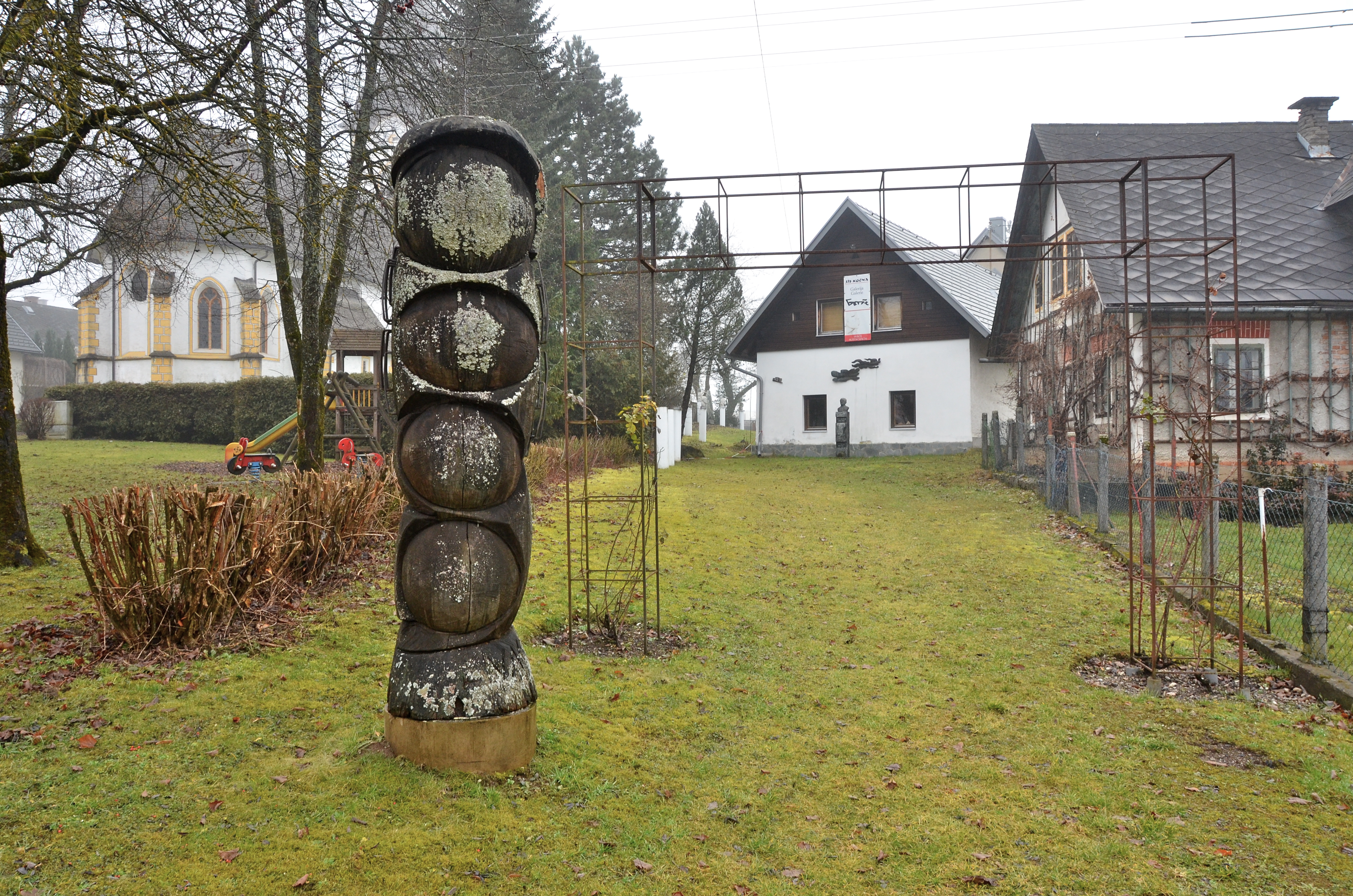 Studio and art gallery of the Slovenian sculptor France Gorše vulgo Vrbnik at Suetschach #42, market town Feistritz im Rosental, district Klagenfurt Land, Carinthia / Austria / EU